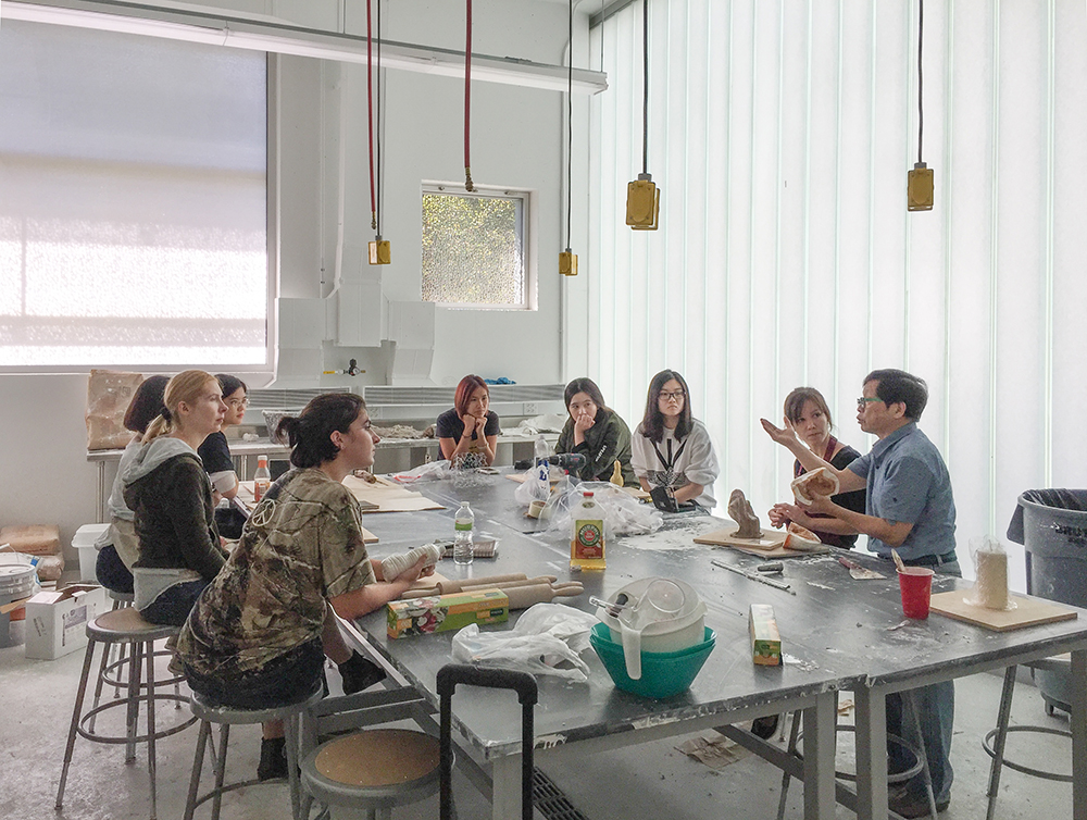 Learning how to make molds in the University of Iowa Visual Arts Building.